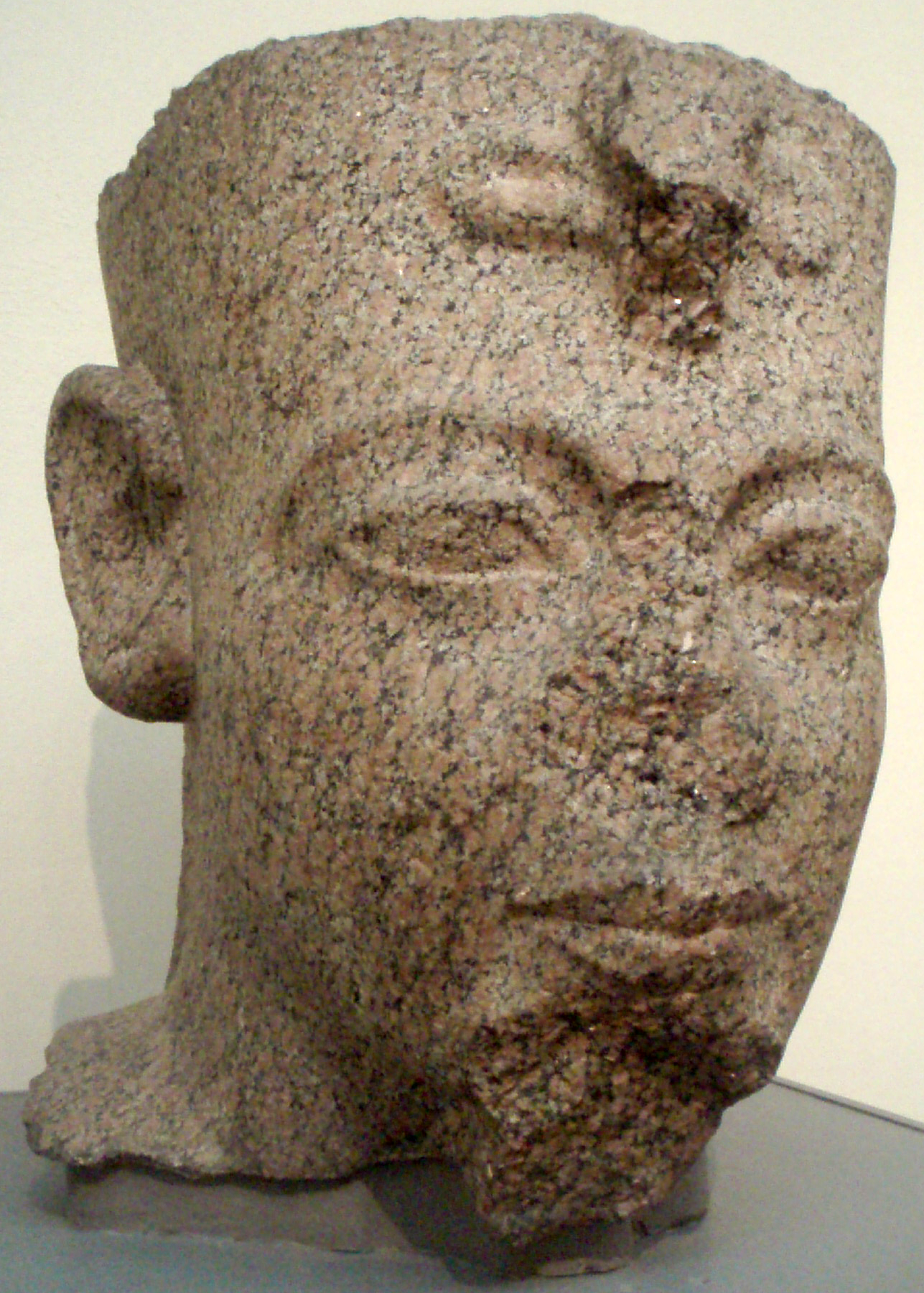 Colossal statue head of pharaoh Ramesses III, from Karnak, temple of Mut. Made of red granite, dynasty 20, circa 1182-1151 B.C. Possibly a usurped work from the time of Tutankhamun or one of his immediate successors. Now residing in the Museum of Fine Arts, Boston.